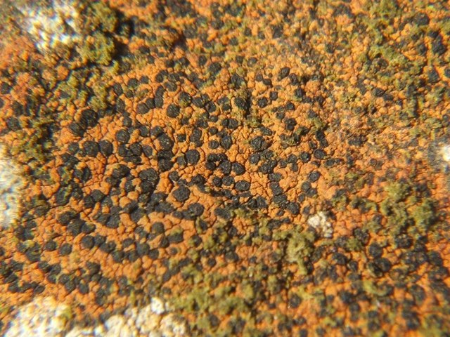 A lichen: Rhizocarpon oederi Several patches of this lichen were growing on a rock in a dry-stone wall. The top of the rock had a wishbone-shaped piece of rusty iron embedded in it (both the rock and the piece of metal are visible near the right-hand edge of the following photo: 1050079). Rust-coloured lichens are often associated with iron-rich rocks, and the species shown here is "common on iron-rich siliceous rocks in upland areas" [F.S.Dobson, "Lichens - An Illustrated Guide to the British and Irish Species"]. In this case, the rock itself may be iron-rich, or the piece of rusty metal embedded in it may provide an iron-rich run-off. Another species, Tremolecia atrata, is very similar in appearance and in habitat; both are rust-coloured, with black apothecia (the spore-producing discs), but those of T. atrata are smooth, while those of R. oederi can be seen, through a hand-lens, to have a wrinkled margin. (See also 1037581 and 954017.)